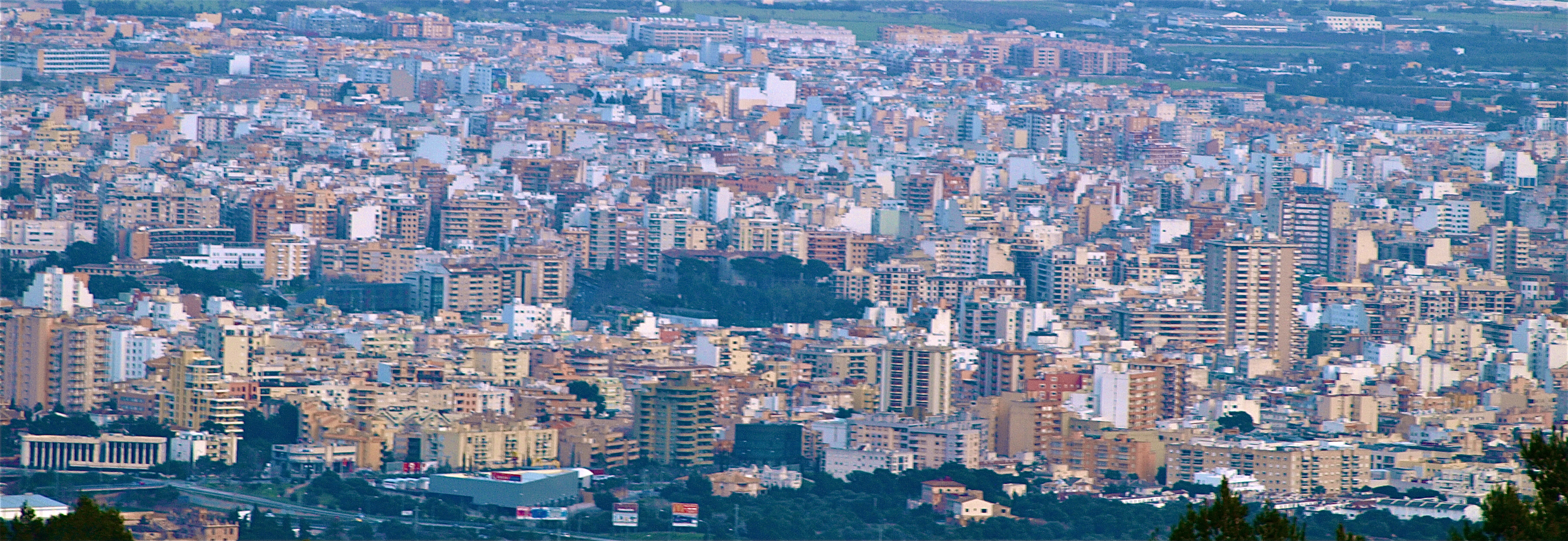 Palma urban sprawl panoramic Place Lloc/Place: Coll de Sa Creu, Palma